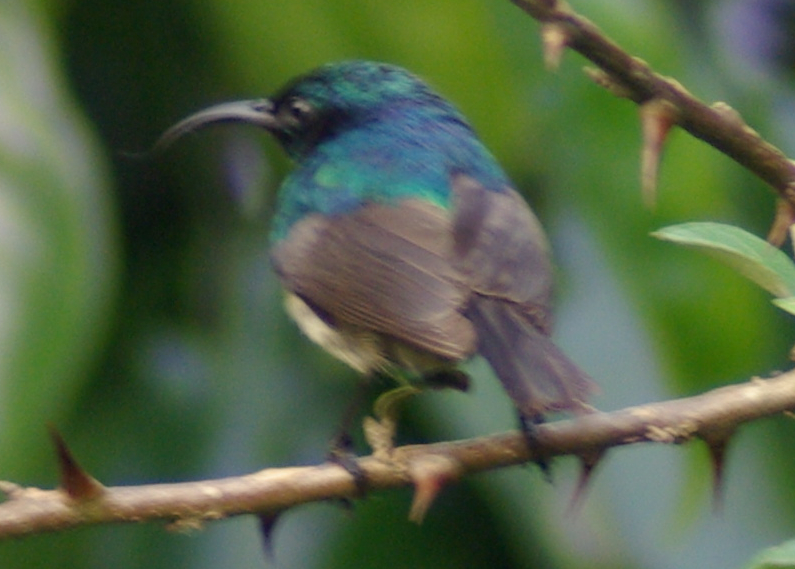 Adult male Eastern Double-Collared Sunbird, Cinnyris mediocris or Nectarinia mediocris, near Mountain Lodge, Kenya. I had help with the id, but I'm confident of it; I hope someone gets a better picture. The time stamp is 10 hours too early.